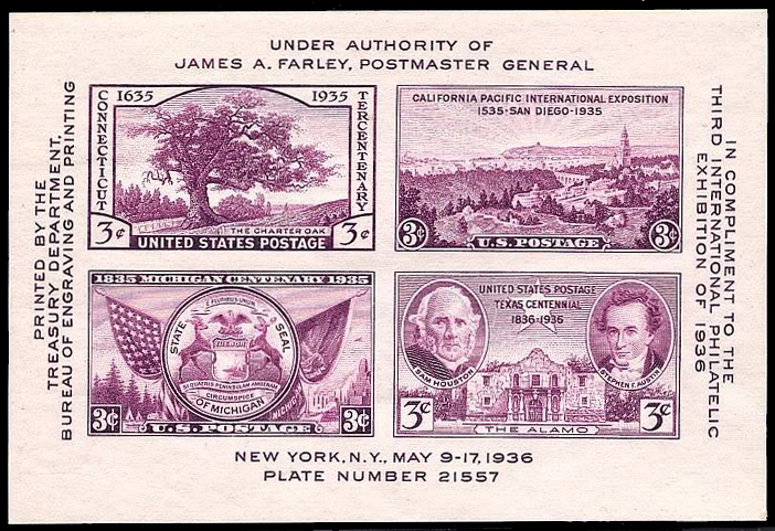 1936 Philatelic Exhibition Souvenir Sheet